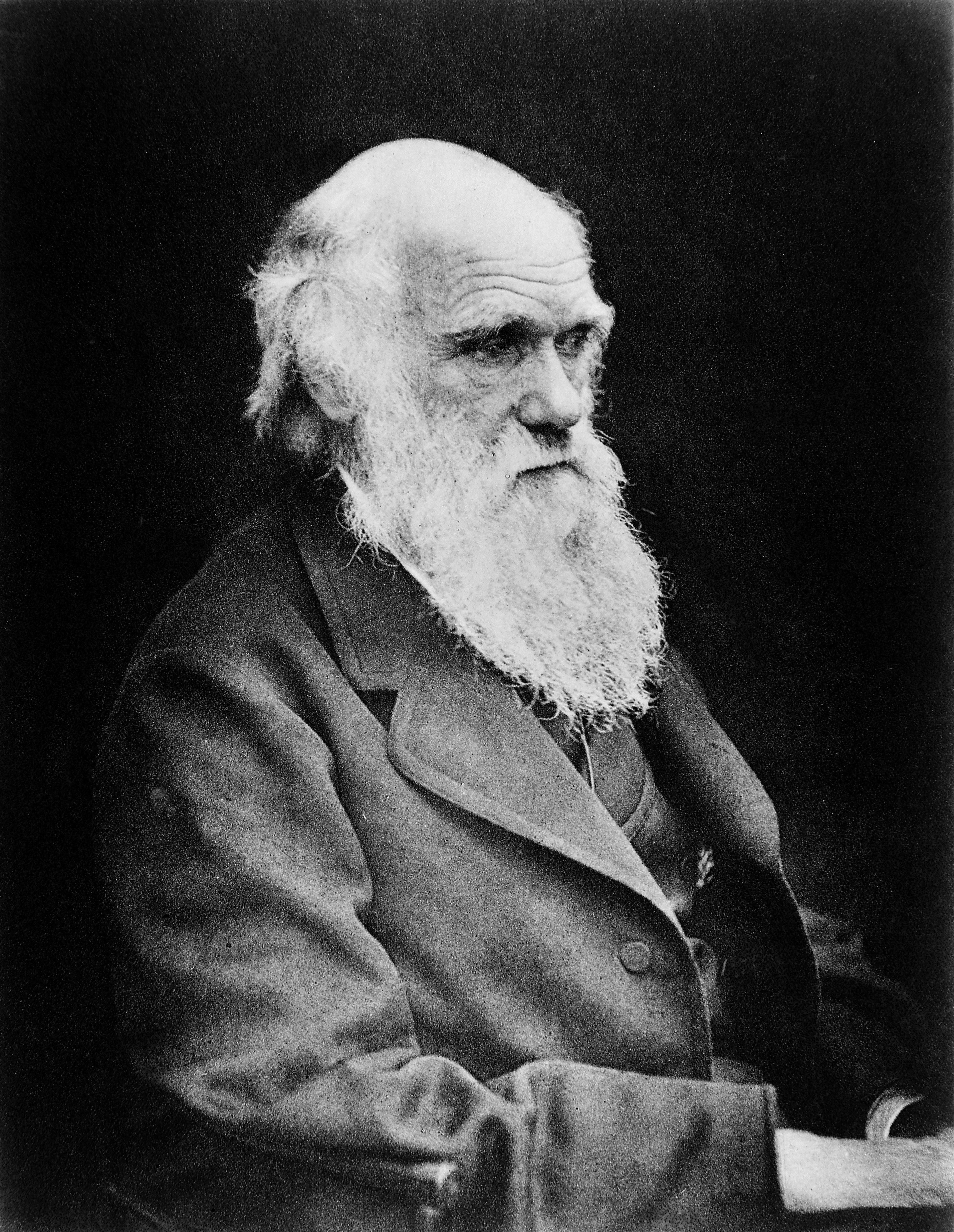 Portrait of Charles Darwin Iconographic Collections Keywords: Darwin, Charles